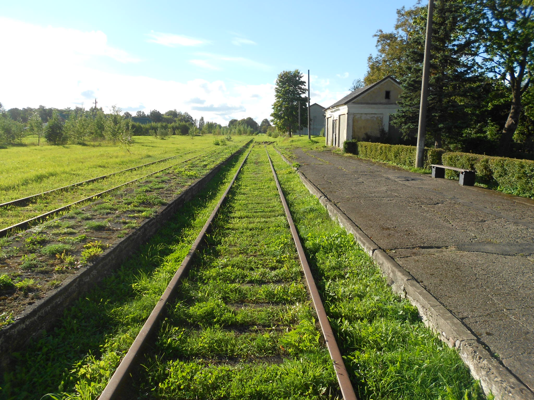 Tracks by the Priekule train station, Latvia